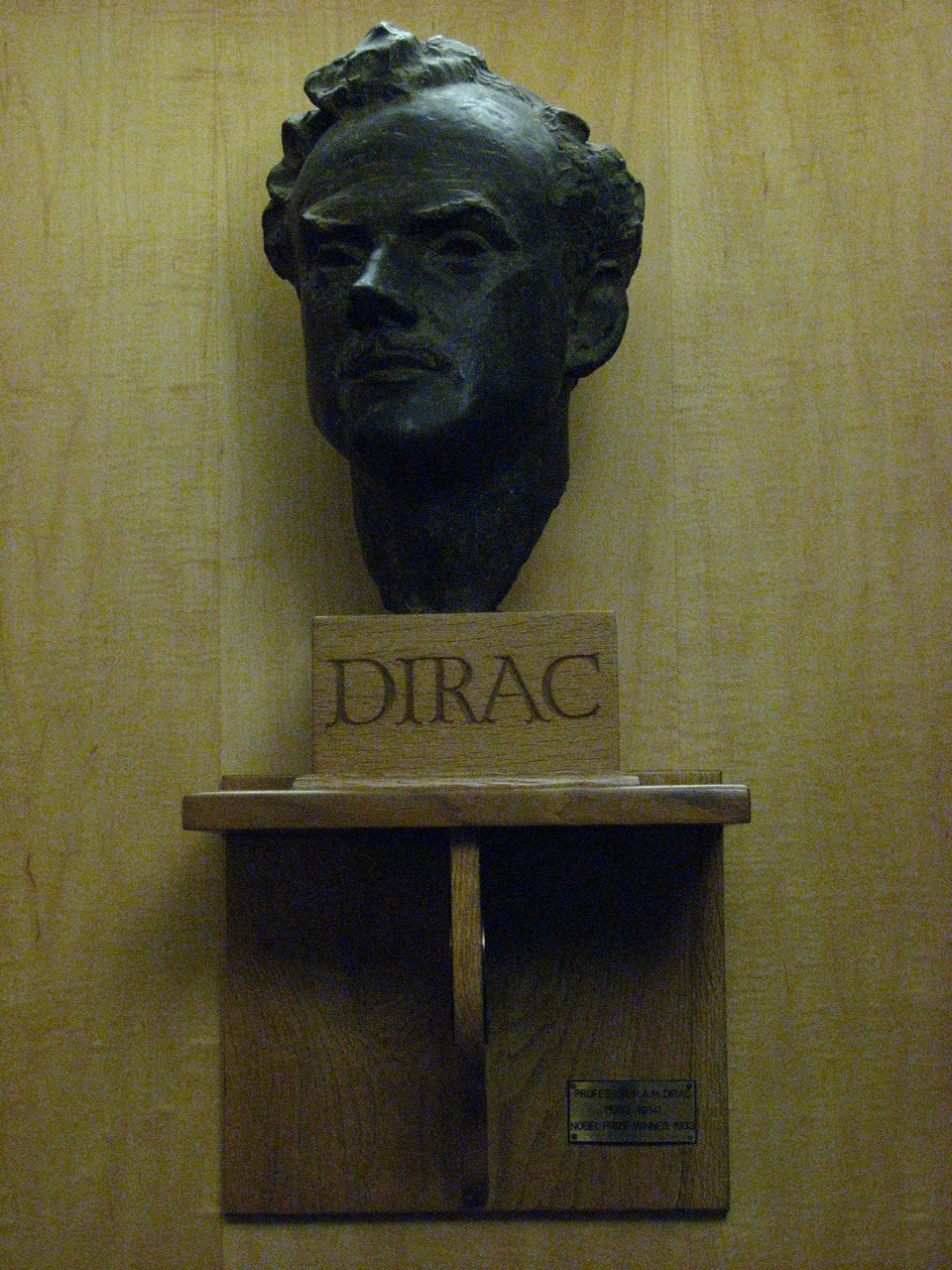 Bust of Paul Dirac, St. John's College, Cambridge